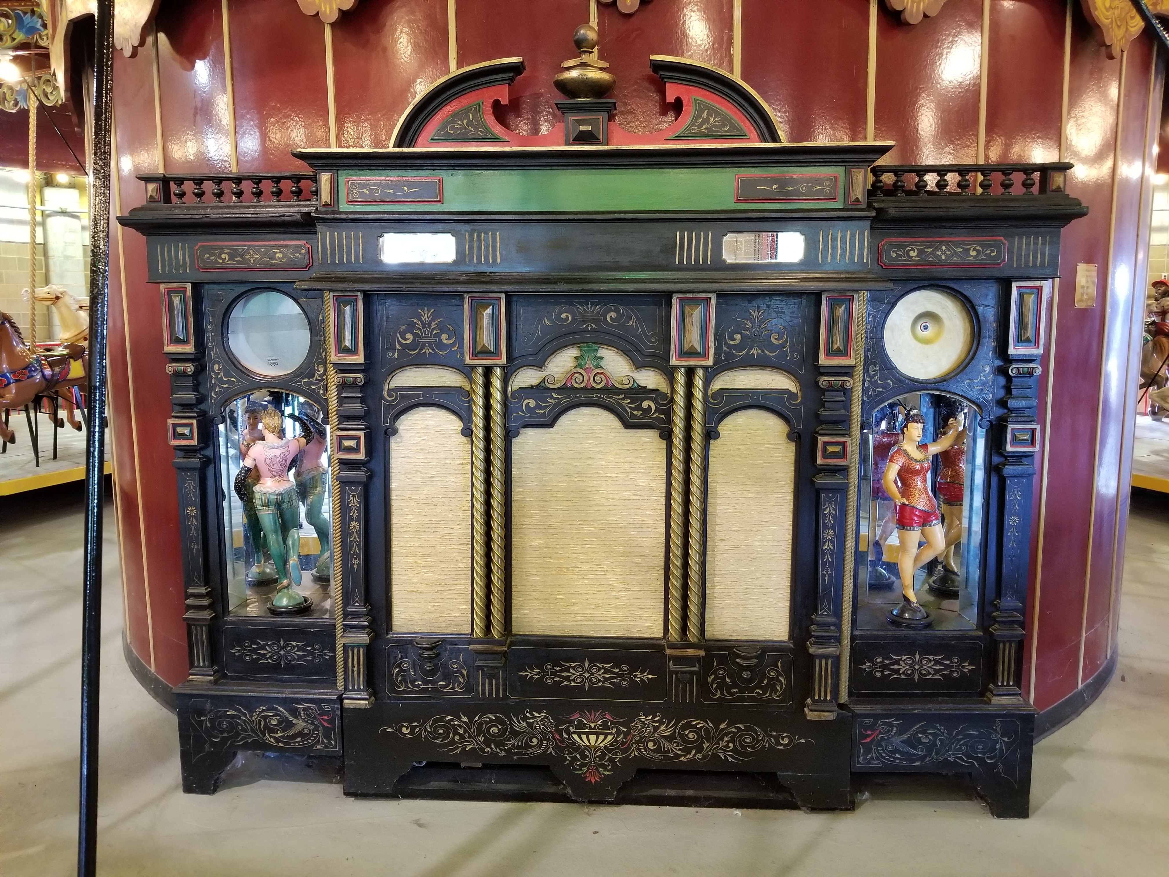 The Frati & Co. band organ at the Lakeside Park Carousel in Port Dalhousie, Ontario. Plays Wurlitzer 150 scale rolls.